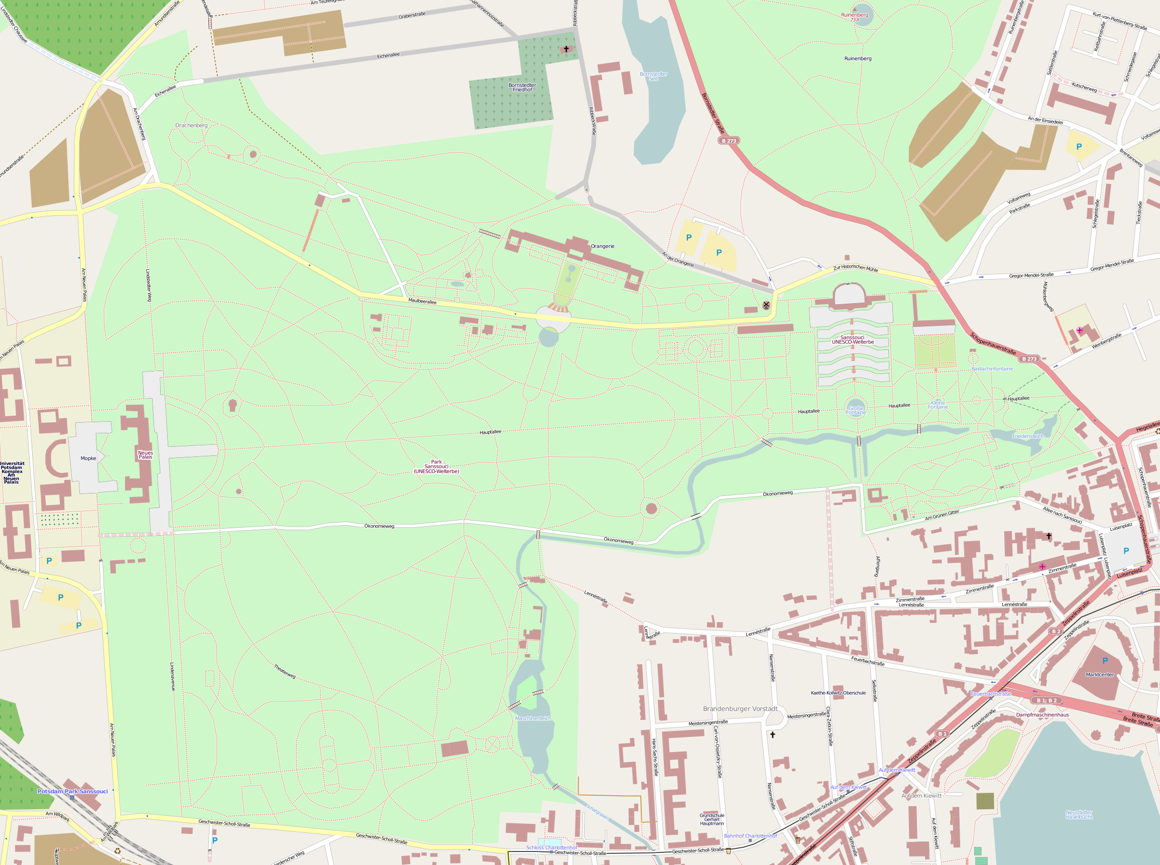 Map of Park Sanssouci (Potsdam, Germany)